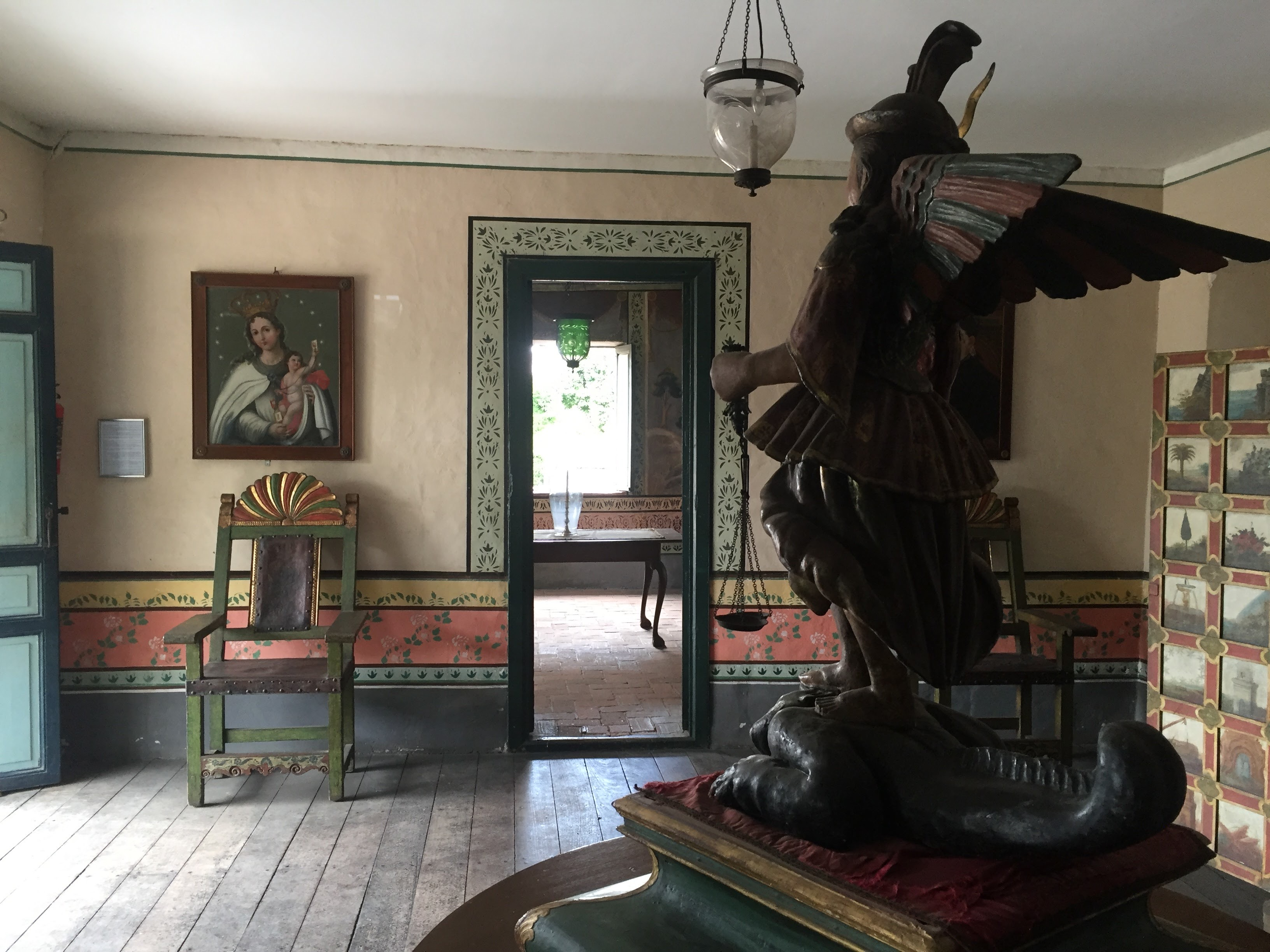 Quinta de Anauco - Museo de Arte Colonial de Caracas.